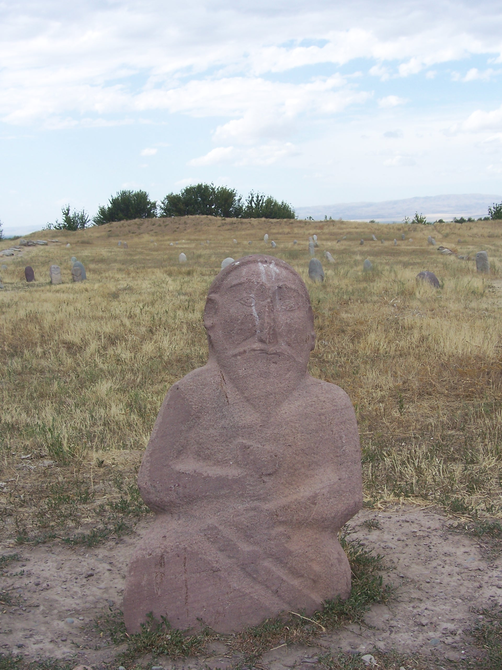 scythian petroglyph near the tower of Burana in Kyrgyzstan.